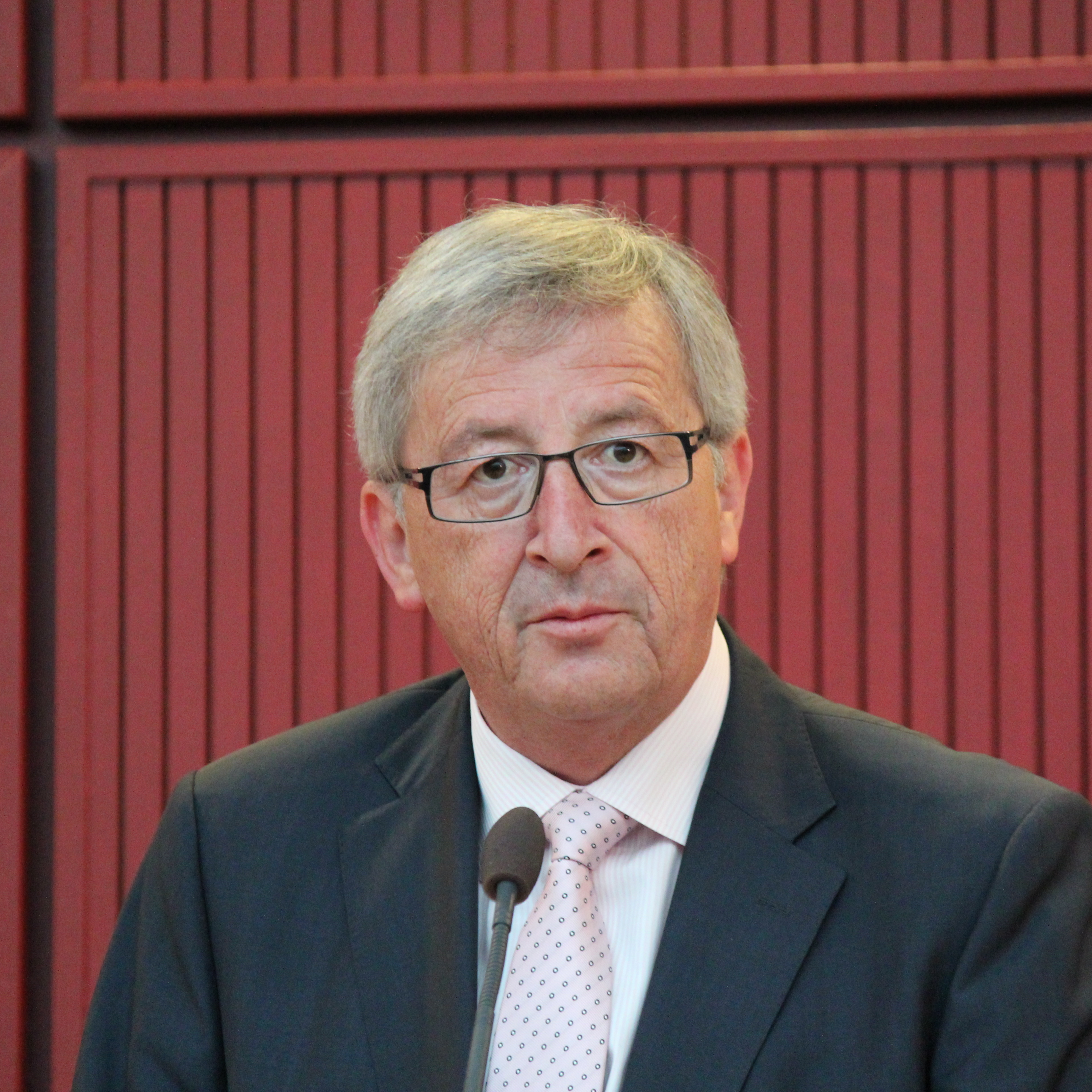 Luxembourg Prime Minister Jean-Claude Juncker, at a ceremony organised by the Taxpayers Association of Europe, awarding the Italian President of the Council (Prime Minister) Mario Monti the European Taxpayers' Prize. Location: Representation of the Free State of Bavaria to the European Union in Brussels, 27 June 2012.